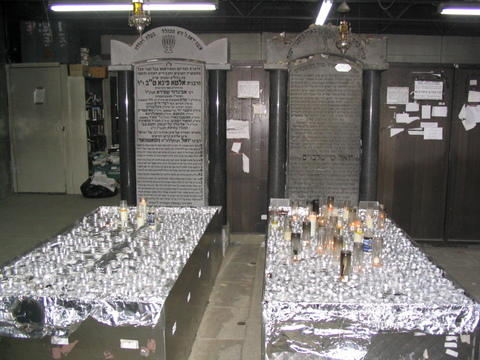 per title